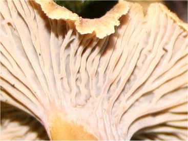 imenoforo a rughe - funghi